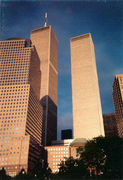 The Twin Towers of the World Trade Center from Battery Park City..